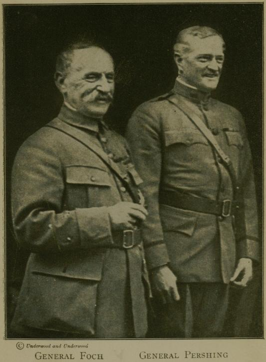 Photo of Ferdinand Foch